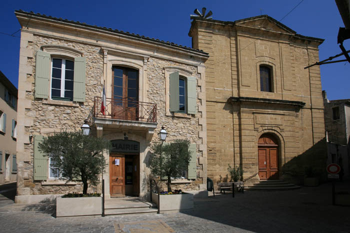 Village of Merindol in Vaucluse, France